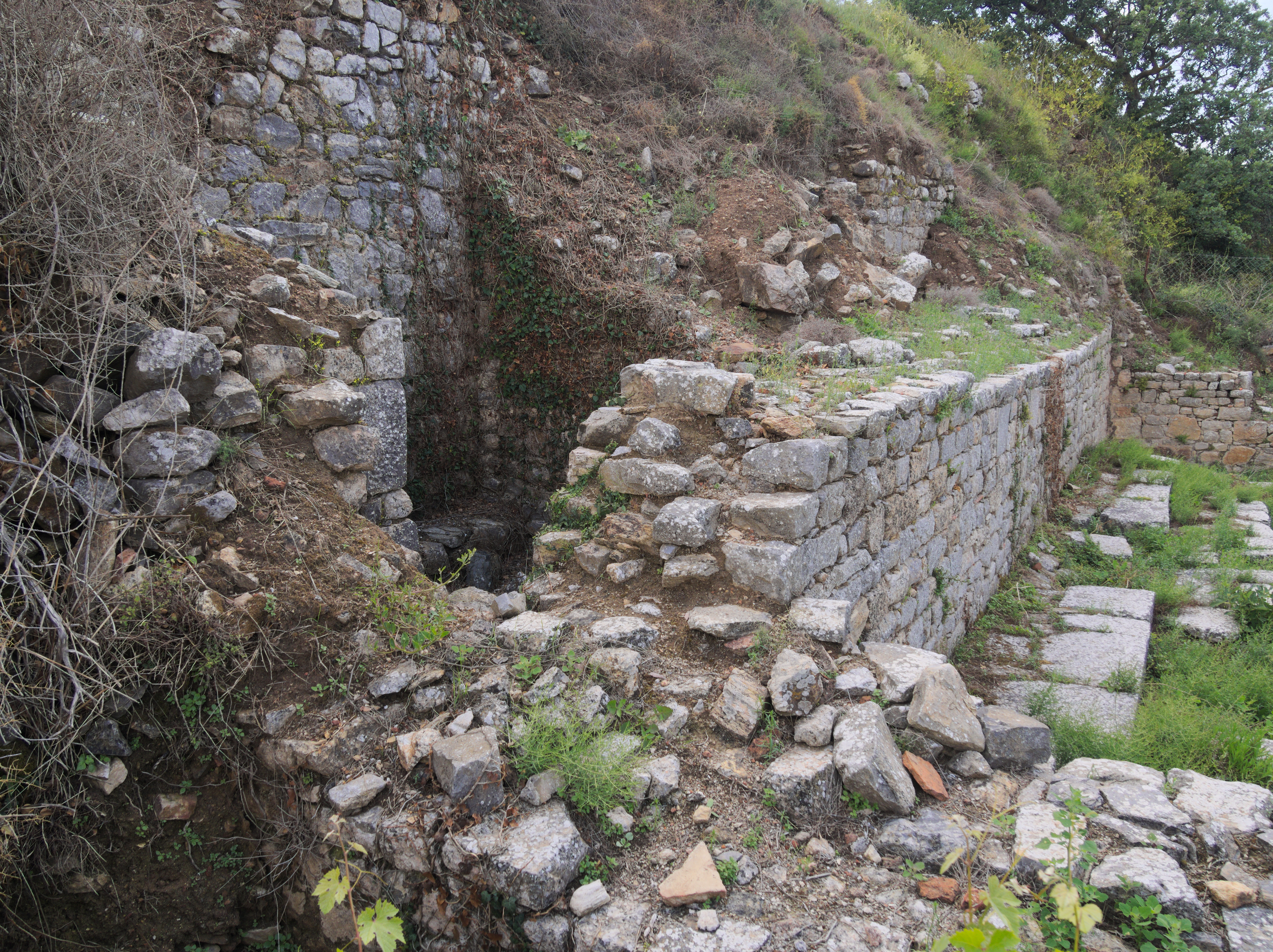 The vouleuterion of ancient Lyttos.